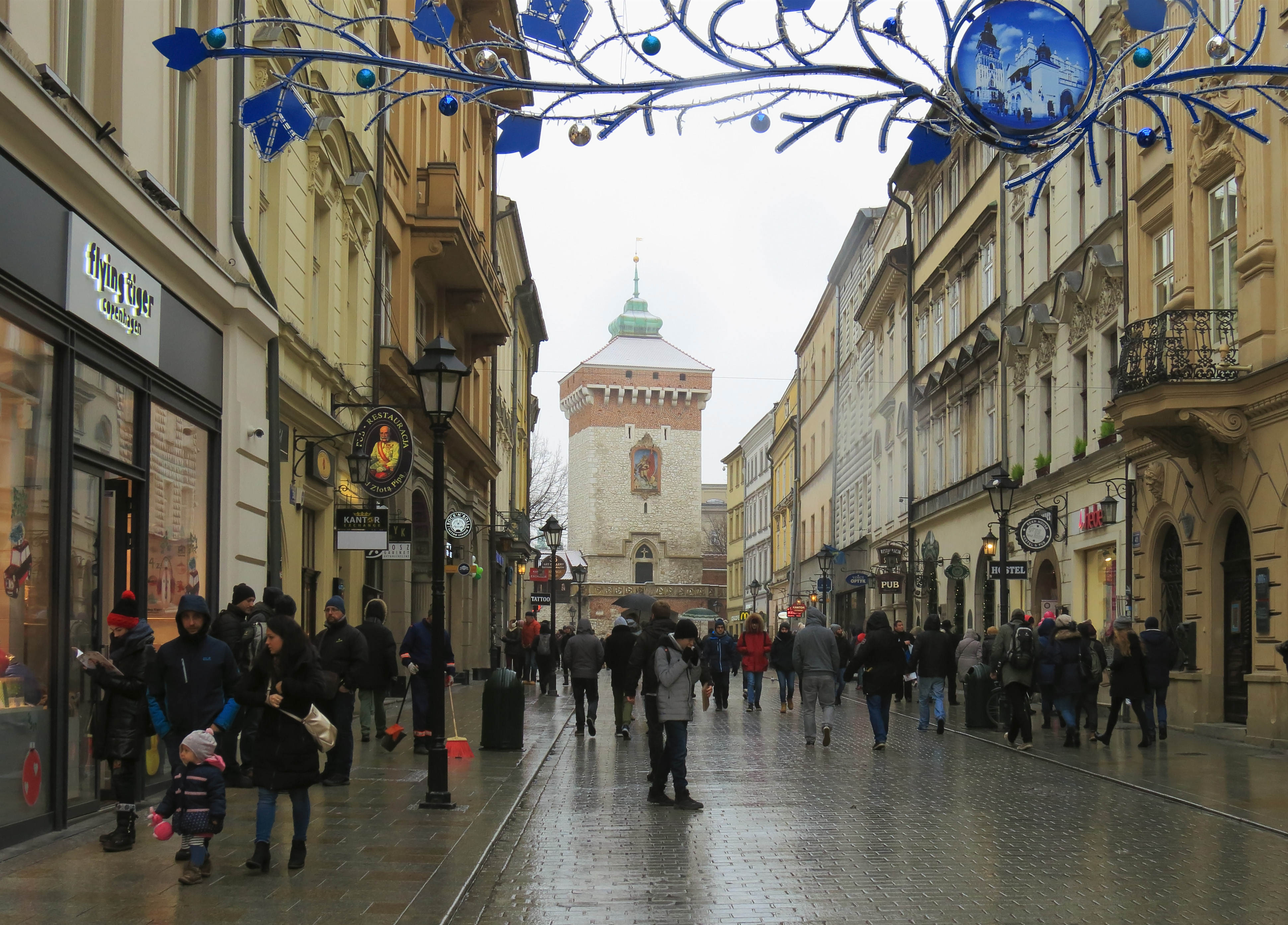 Floriańska Street in Kraków